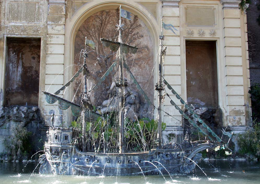 Fontana della Galera in the Vatican City